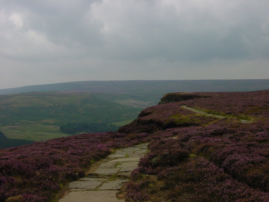 North York Moors national park landscape near Chopgate